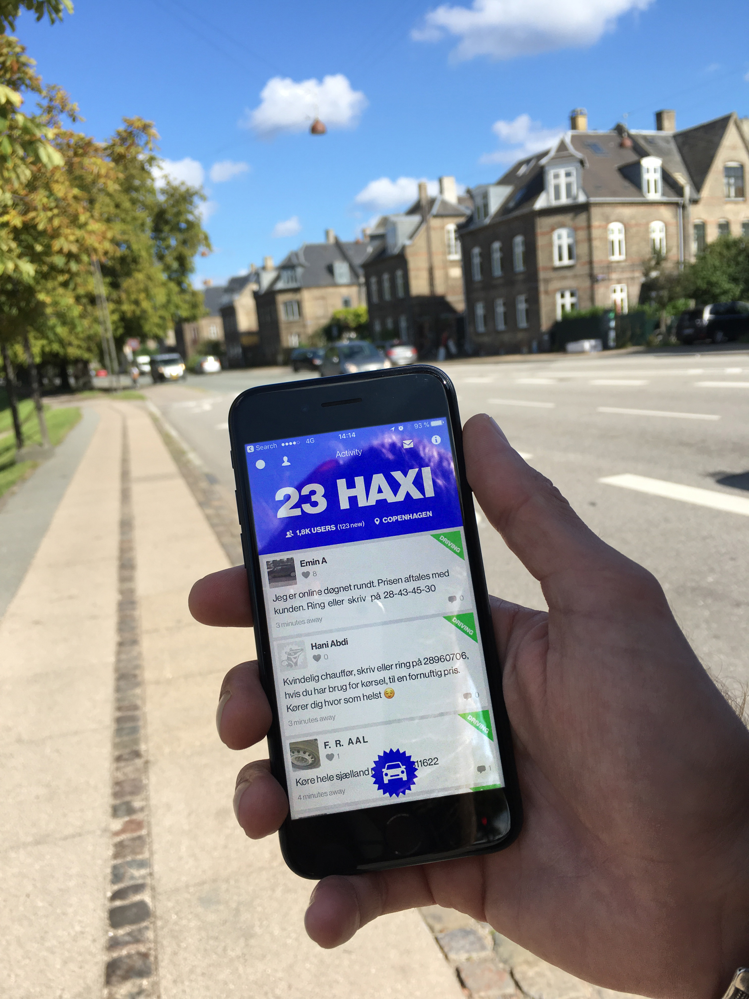 Man holding the iphone with the app HAXI open.